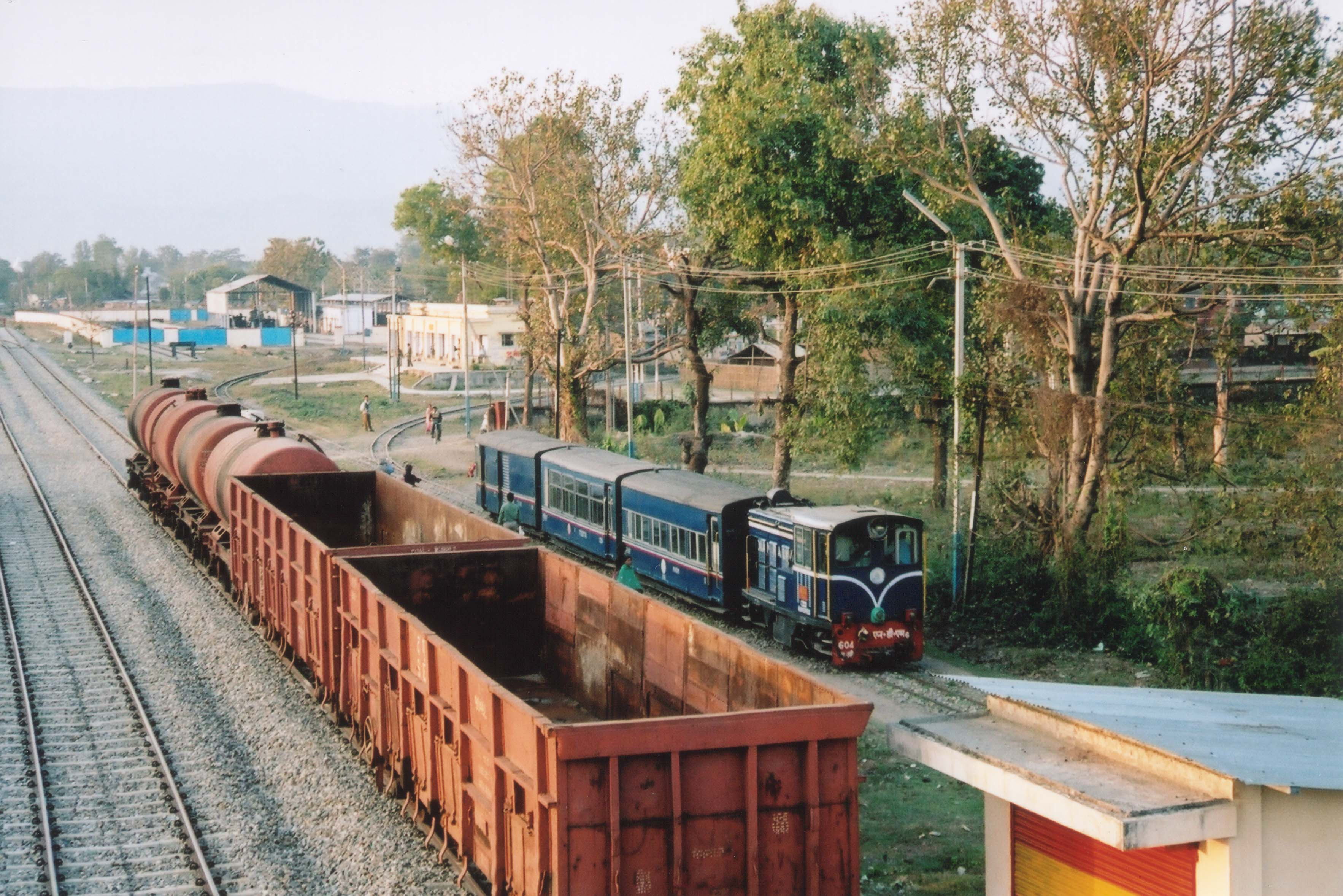 DHR Diesel Locomotive 604 with a passenger train at Siliguri Junction Station. 18th February 2005 Photographer - A.M.Hurrell Camera - Minolta X700 (35mm film) Modified - Scanned by film developer. File size and definition changed using Adobe Photoshop 5.0LE